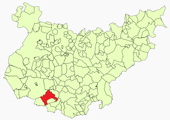 Fregenal de la Sierra